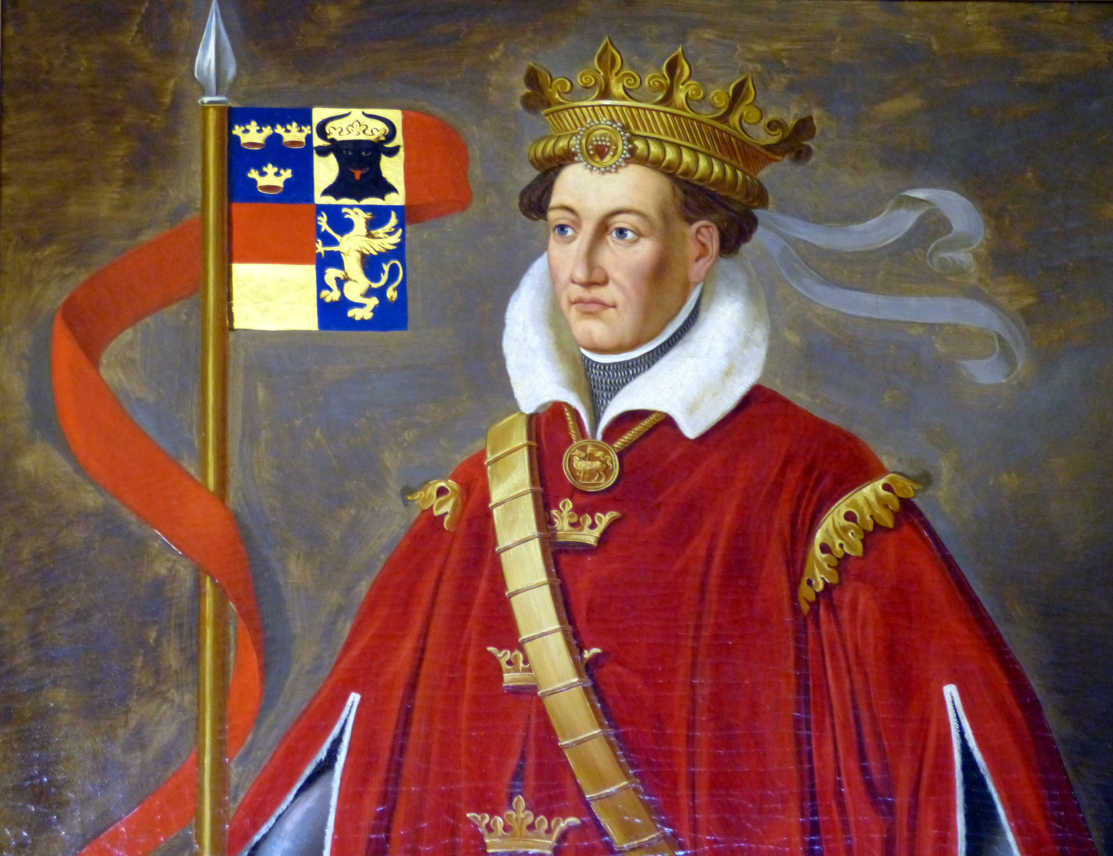 Schwerin Castle ( Mecklenburg ). Portrait gallery of the dukes of Mecklenburg - Portrait of Albert III, duke of Mecklenburg and king of Sweden ( + 1412 ) or of his son Eric, ruler of Gotland (symbol hanging from his neck)